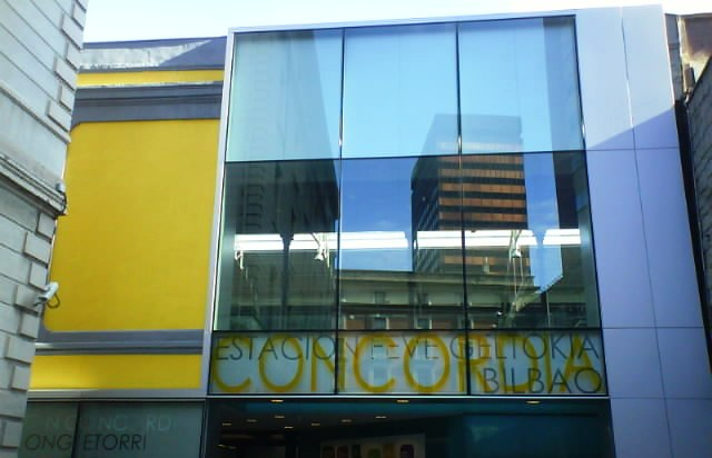 Railway station Bilbao Concordia (FEVE) in the Basque Country, Spain